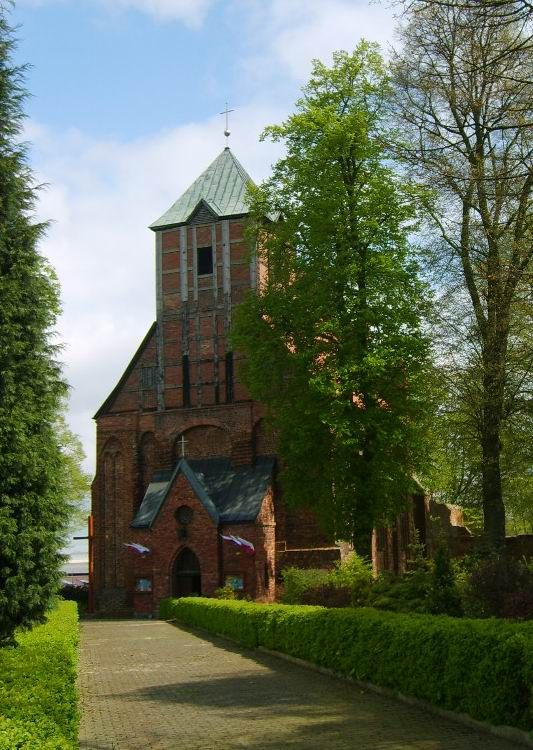 Gothic church (14th/18th century) in Police - Jasienica